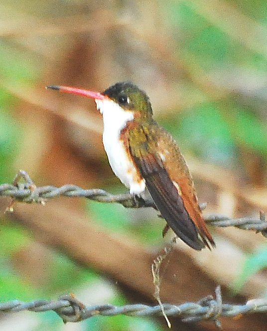 Cinnamon-sided Hummingbird at Rancho Dioon, Oaxaca, Mexico, 080331. (Amazilia (viridifrons) wagneri)